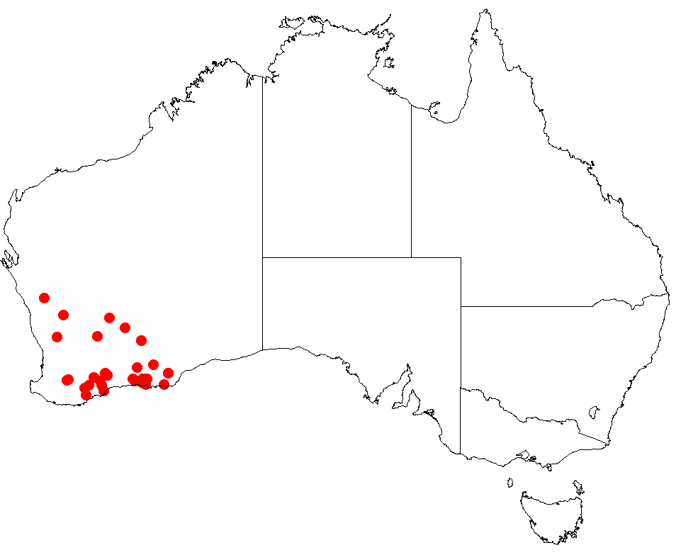 Lawrencia diffusa occurrence records downloaded from Australasian Virtual Herbarium, on 22 May 2018